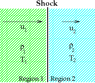 Made by me in xfig.